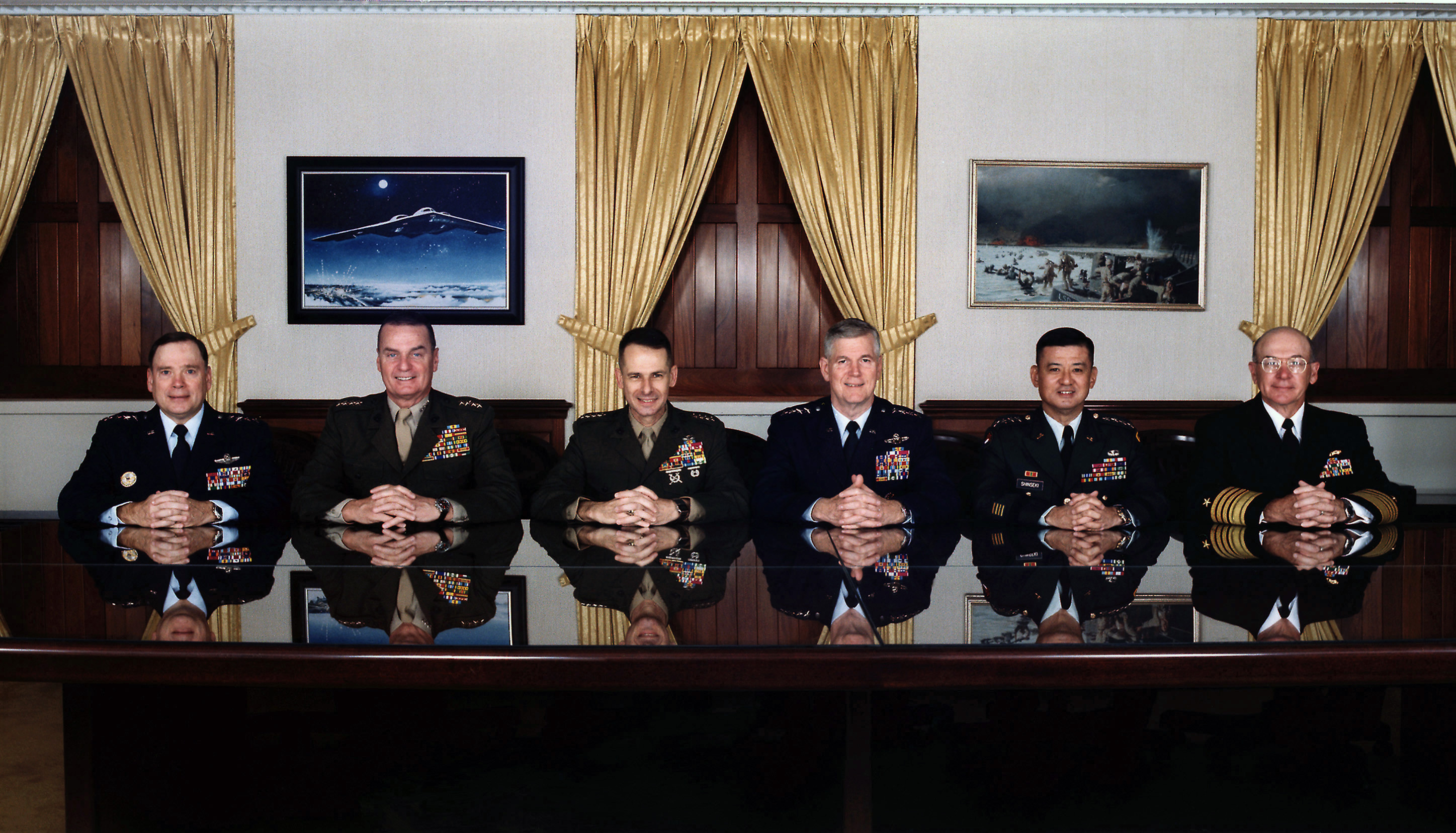 The Joint Chiefs of Staff photographed in the Joint Chiefs of Staff Gold Room, more commonly known as The Tank, in the Pentagon on December 14, 2001. From left to right are: U.S. Air Force Chief of Staff Gen. John P. Jumper, U.S. Marine Corps Commandant Gen. James L. Jones Jr., Vice Chairman of the Joint Chiefs of Staff Gen. Peter Pace, U.S. Marine Corps, Chairman of the Joint Chiefs of Staff Gen. Richard B. Myers, U.S. Air Force, U.S. Army Chief of Staff Gen. Eric K. Shinseki, U.S. Navy Chief of Naval Operations Adm. Vern E. Clark.